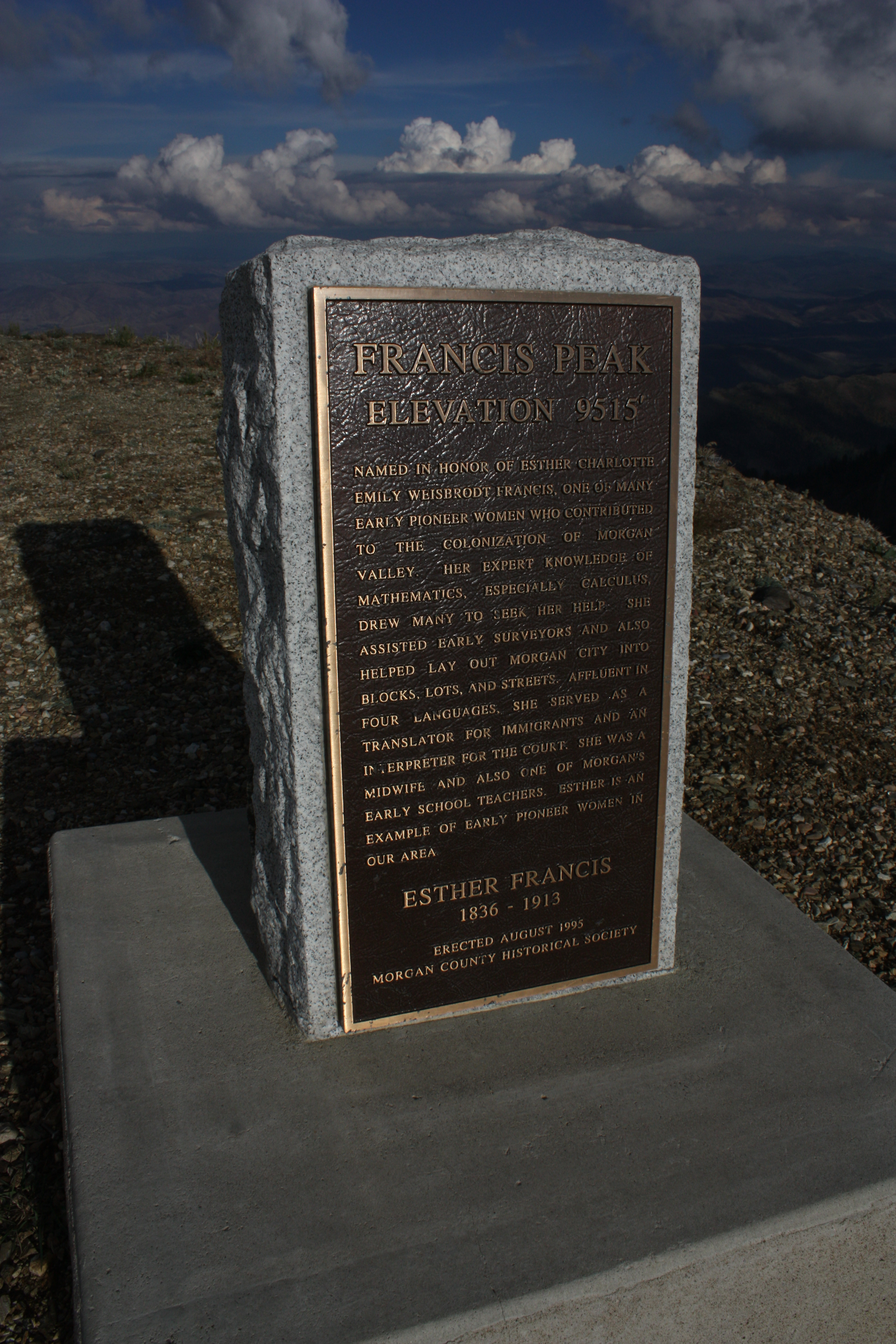 In 1995 the Morgan County Historical Society mounted a granite and bronze marker just outside the Utah Air National Guard radar station on Francis Peak, Utah which reads "Francis Peak Elevation 9515 Named in honor of Esther Charlotte Emily Weisbrodt Francis, one of many early pioneer women who contributed to the colonization of Morgan Valley. Her expert knowledge of mathematics, especially calculus, drew many to seek her help. She assisted early surveyors and also helped lay out Morgan City into blocks, lots, and streets. Affluent in four languages, she served as a translator for immigrants and an interpreter for the court. She was a midwife and also one of Morgan's early school teachers. Esther is an example of early pioneer women in our area. Esther Francis 1836-1913 Erected August 1995 Morgan County Historical Society".